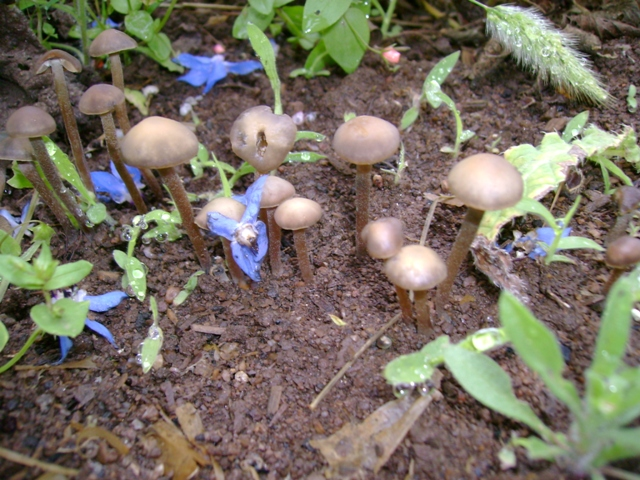 Panaeolus bispora. Found in San Diego 06/14/08, Photos by lipa, identification by Workman.